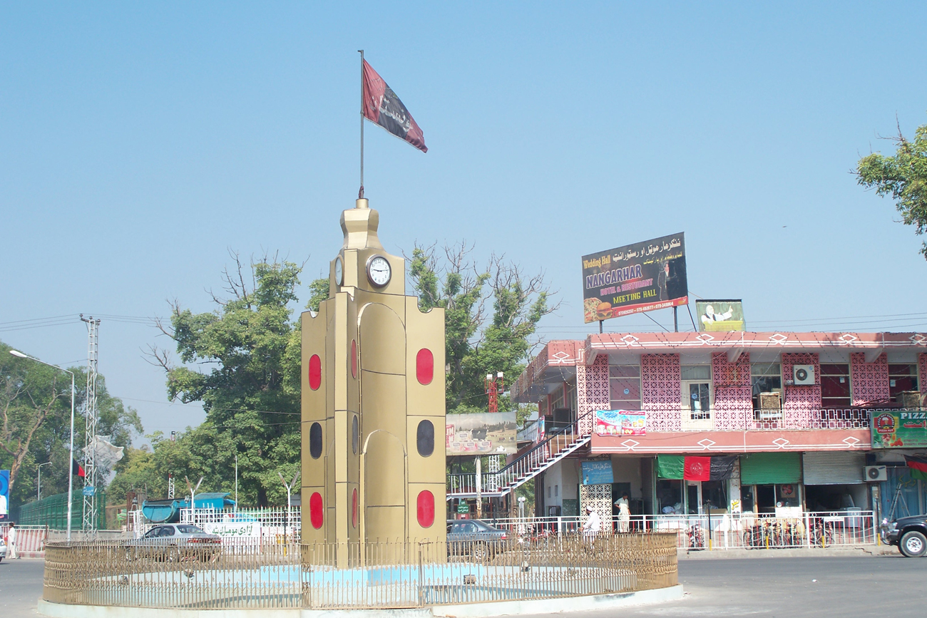 Pashtunistan Chowk in Jalalabad, Afghanistan. By Qudratullah Khan